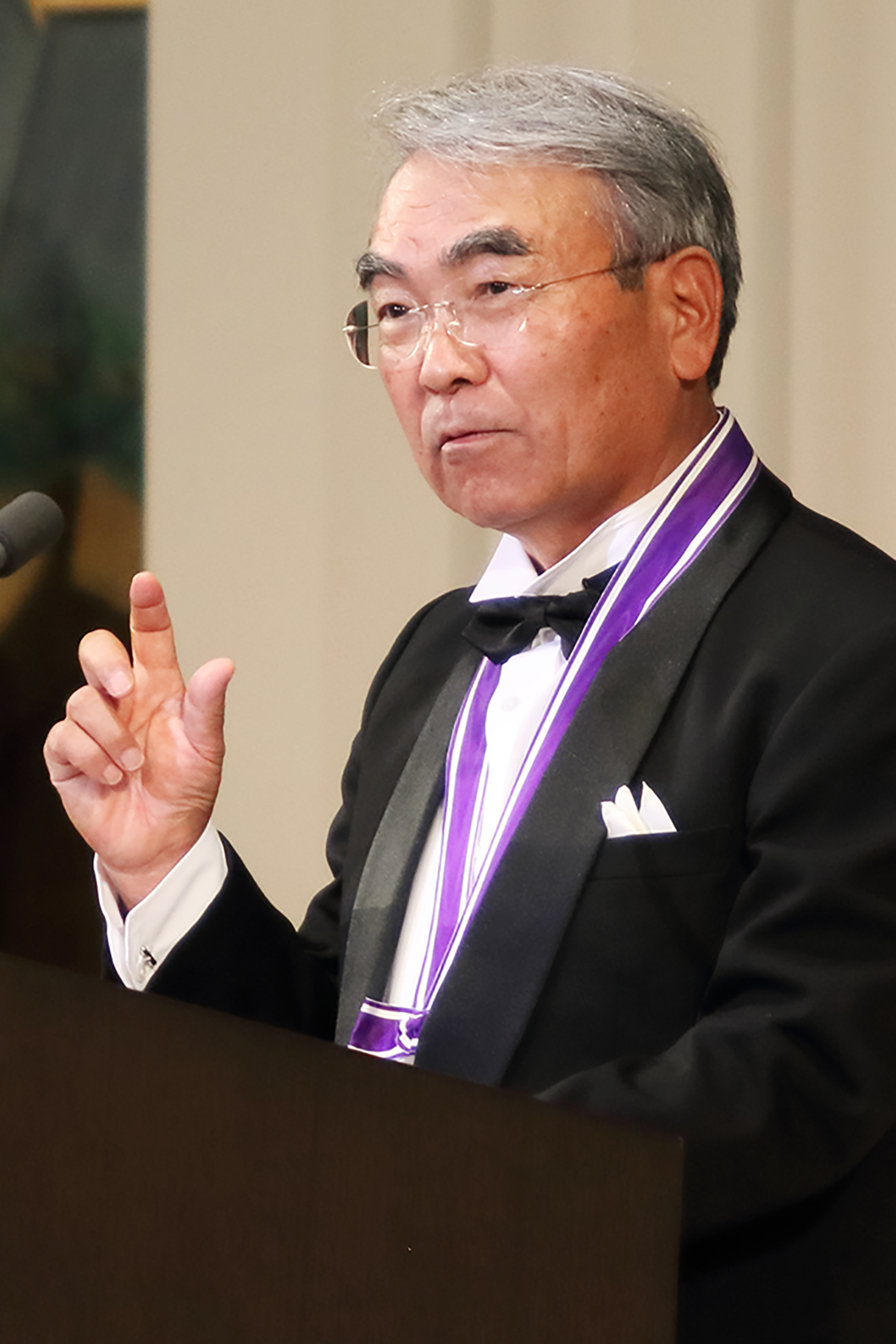 Dr Takeo Kanade speeched at 2016 Kyoto Prize Presentation Ceremony.